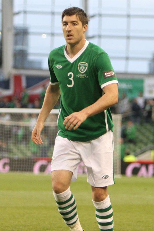 Field of Dreams (2 of 3)